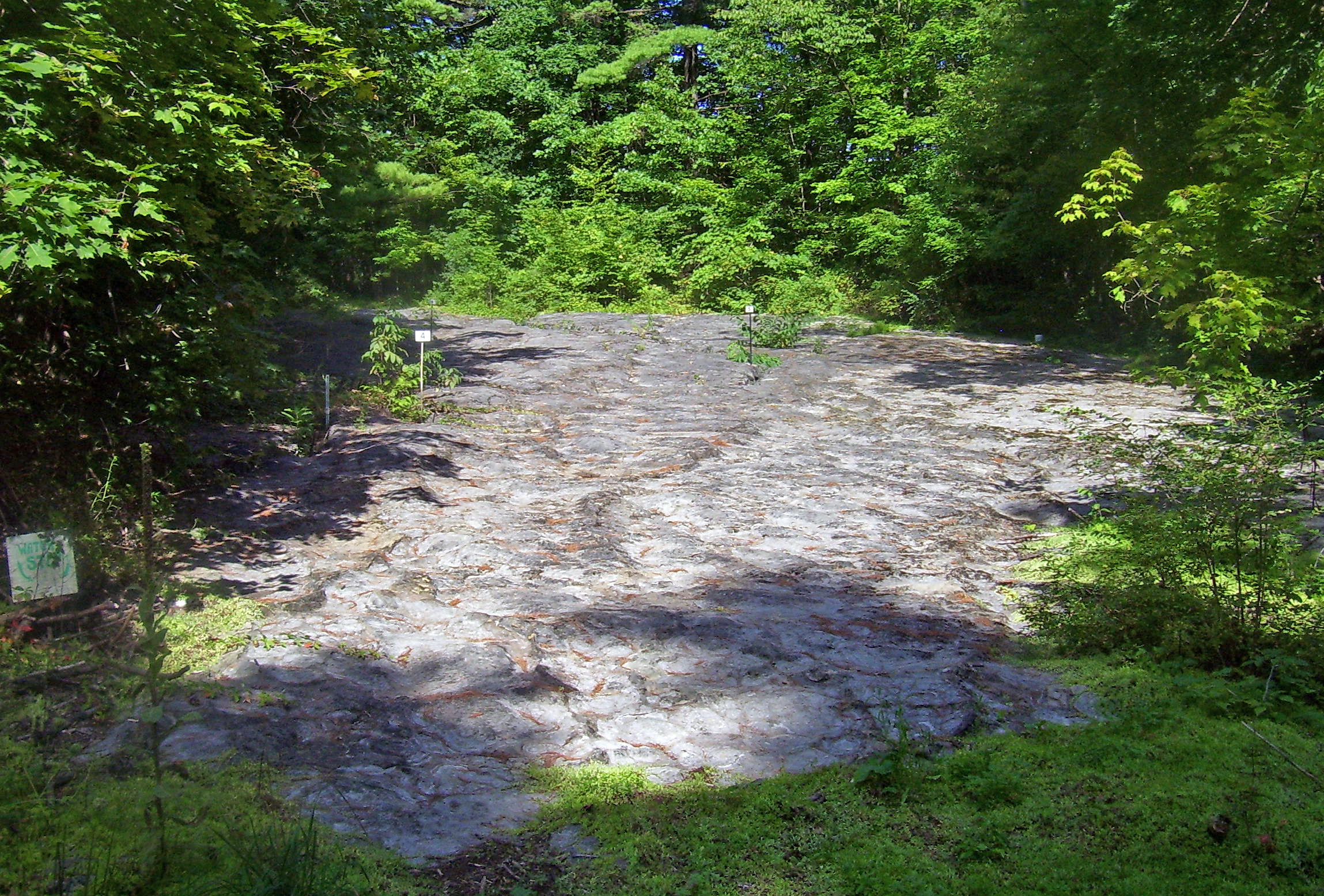 Cambrian-era Rock grotto at Petrified Sea Gardens, outside Saratoga Springs, NY, USA